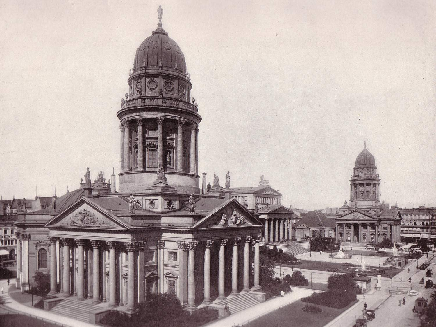 The Gendarmenmarkt in Berlin (in front the "Deutscher Dom" (German Cathedral), in background "Königliches Schauspielhaus" (royal theater) and "Französischer Dom" (French Cathedral)